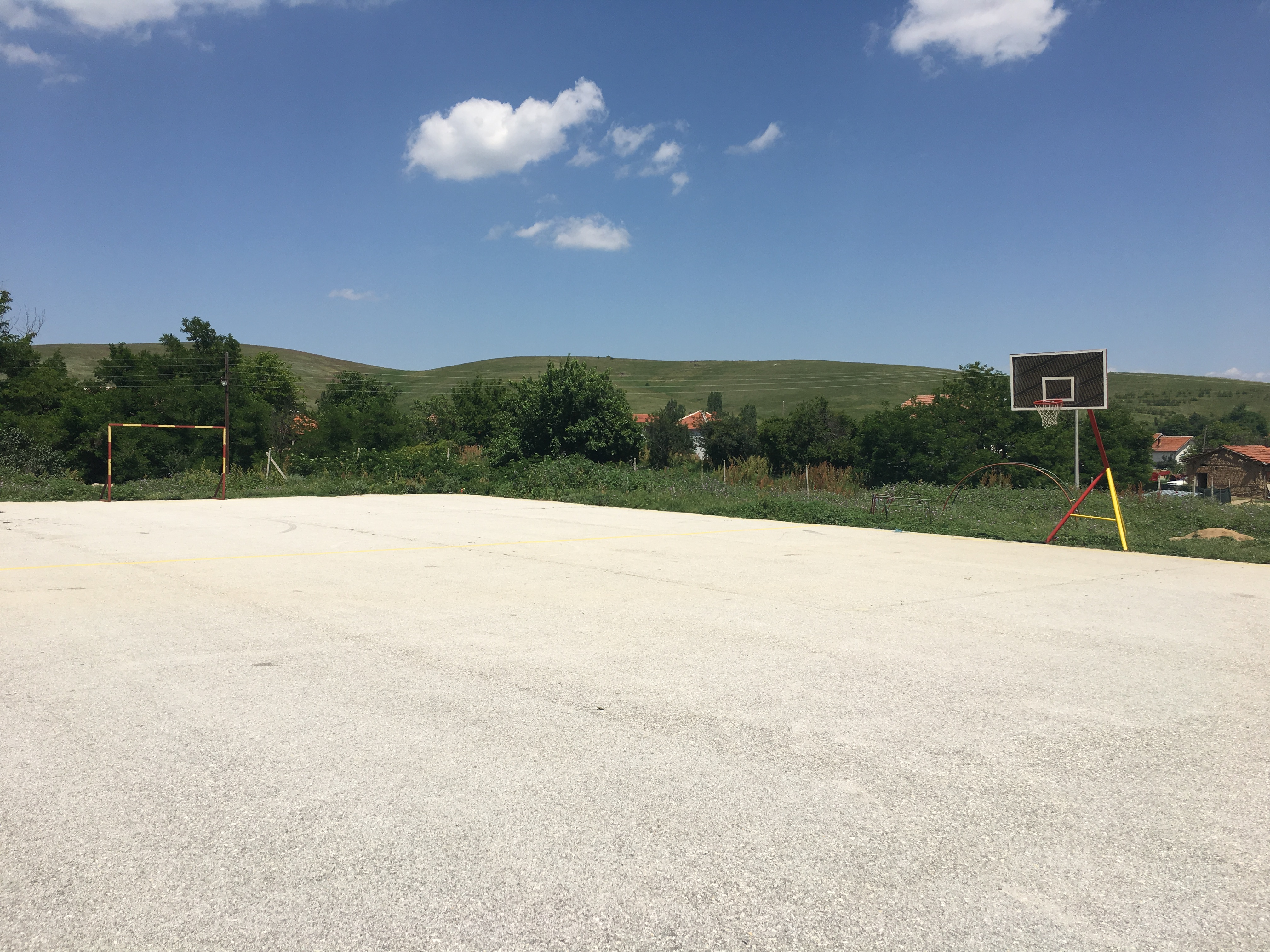 A playing ground in primary school's yard in the village of Dolno Srpci